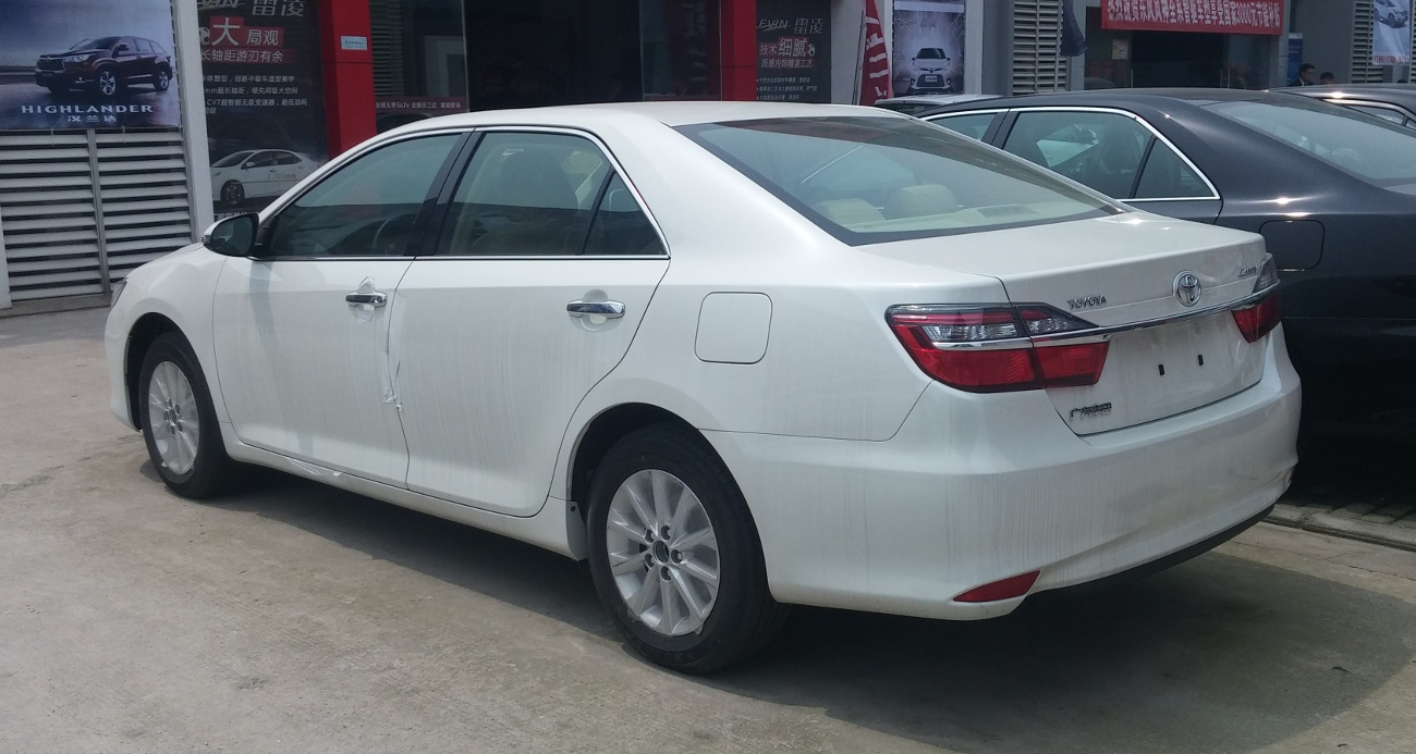 Toyota Camry XV50 facelift photographed in Wuhan, Hubei province, China.